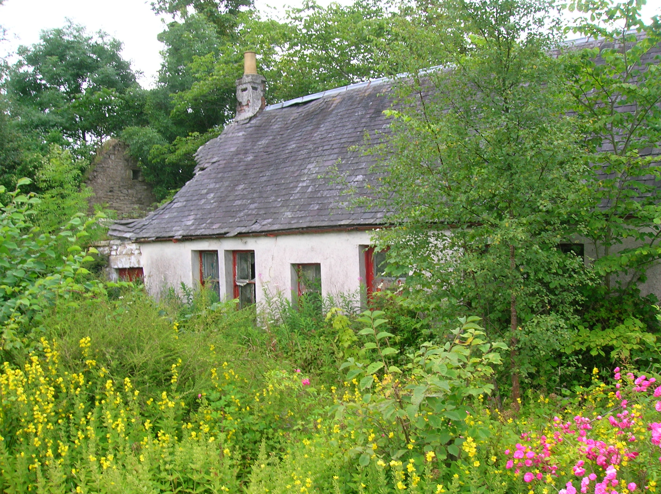 Nettlehirst Cottage, Auchentiber, North Ayrshire, Scotland